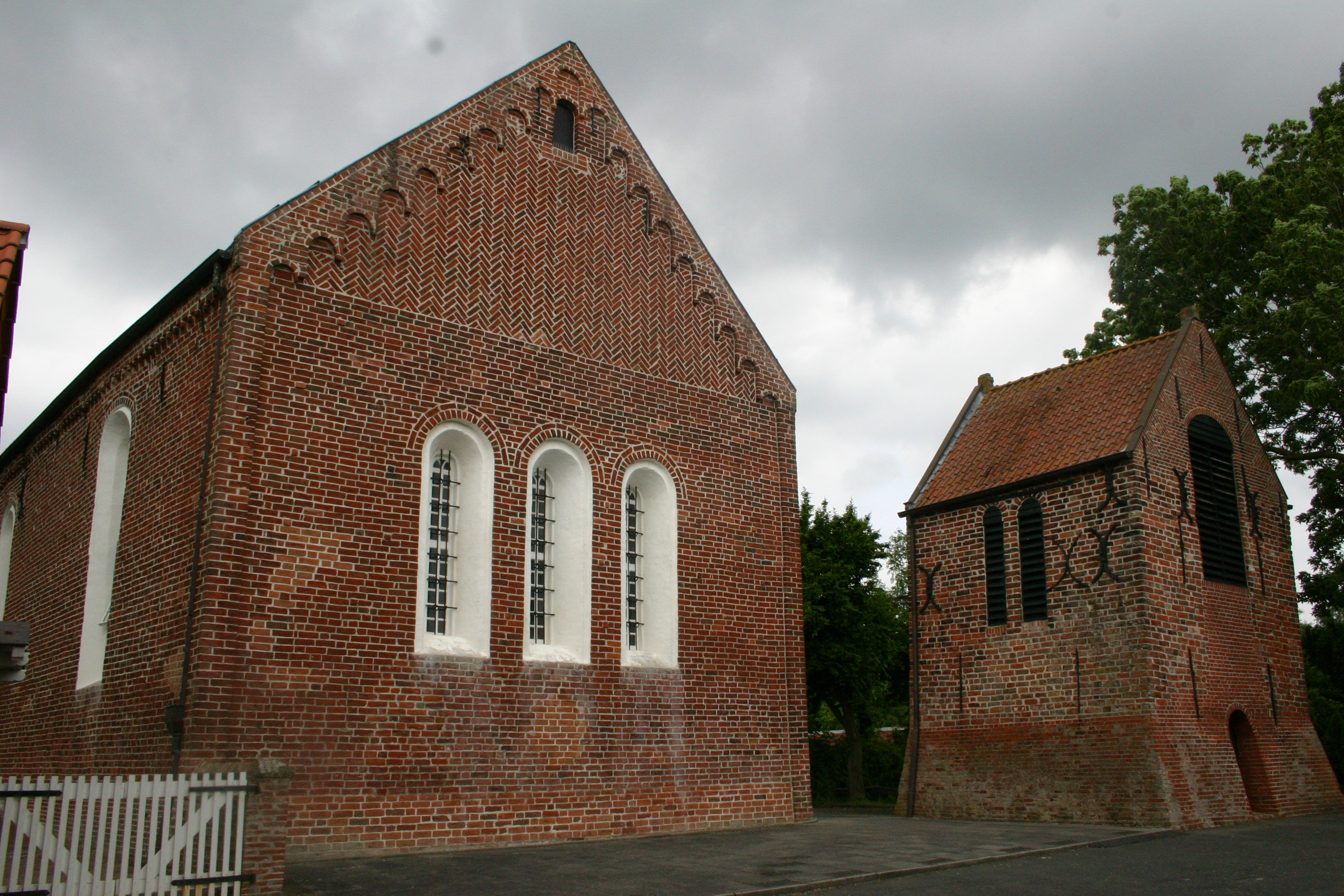 Historic church in Canum, district of Aurich, East Frisia, Germany, second half of C13